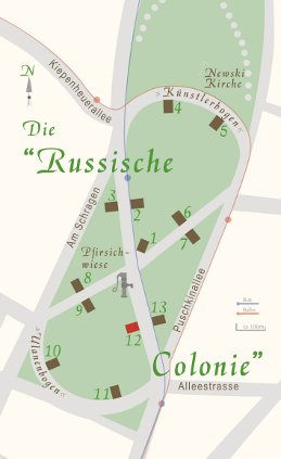 Map of the Russian Colony Alexandrowka, Potsdam